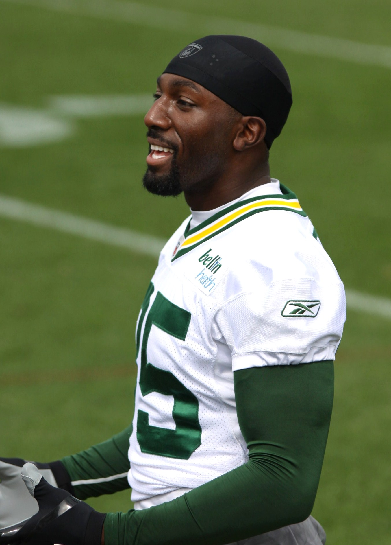 Greg Jennings during Green Bay Packers Training Camp, August 30, 2011